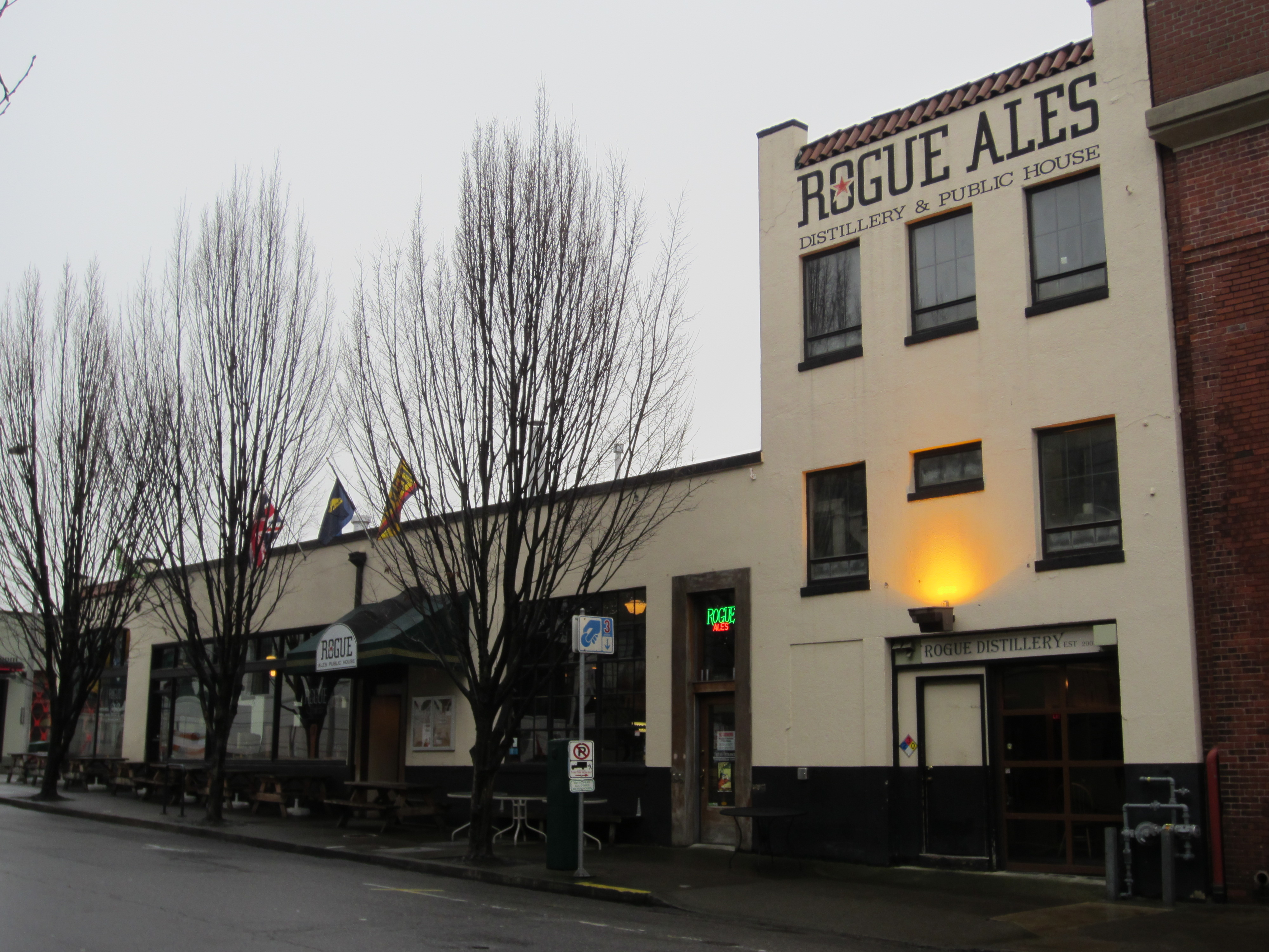 Rogue Ales Distillery & Public House in northwest Portland, Oregon in 2012